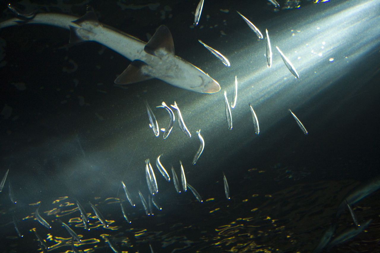 Soupfin shark (Galeorhinus galeus) at the Oregon Coast Aquarium.